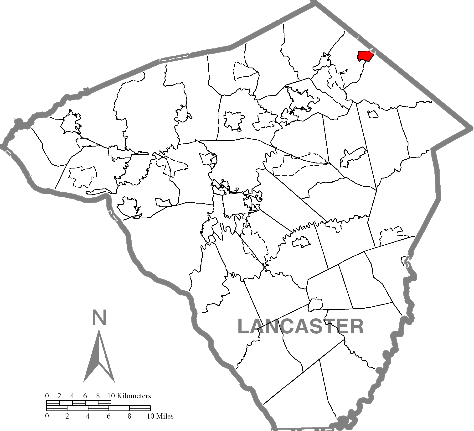 Highlighted Lancaster County map of Adamstown.